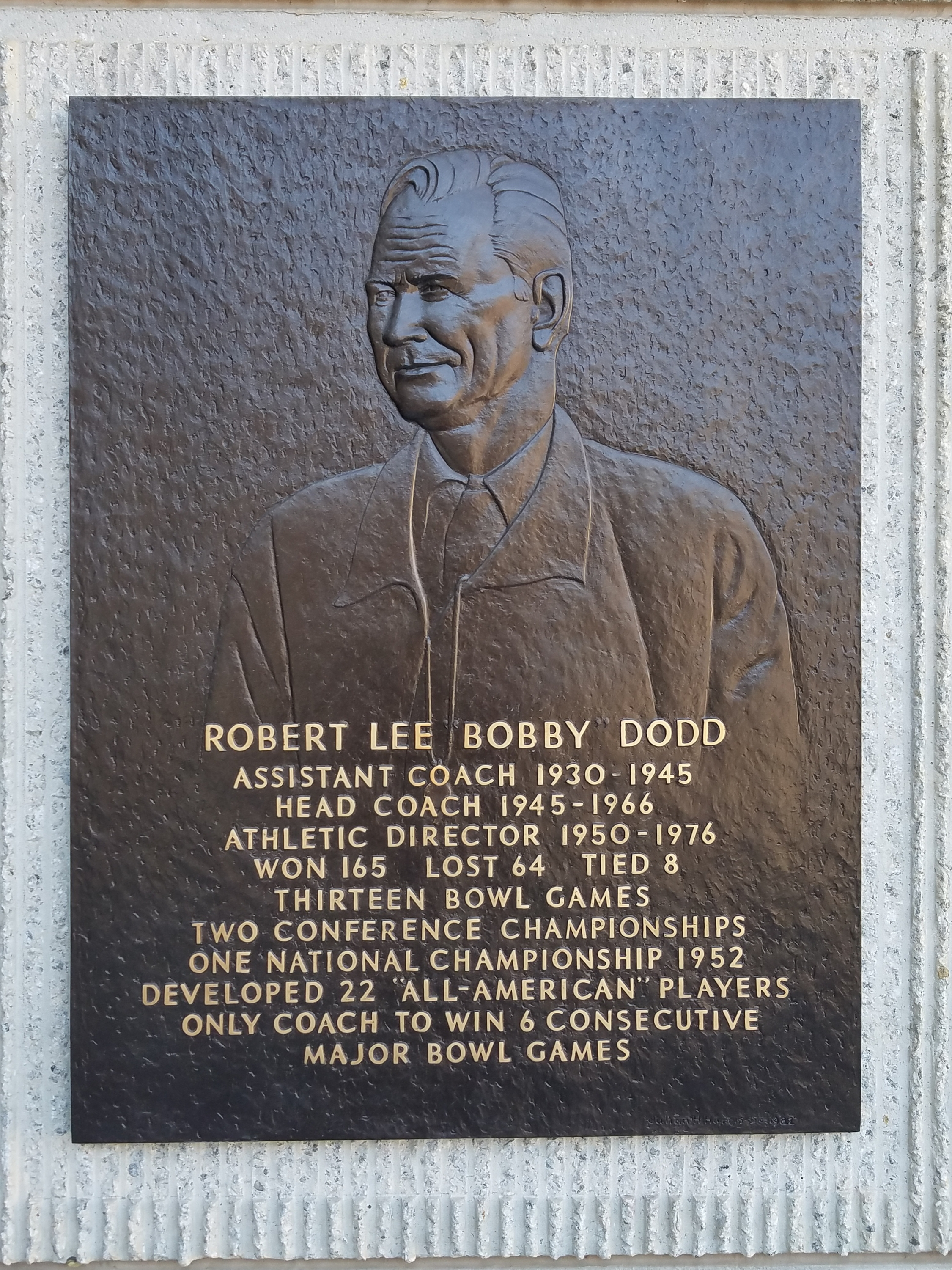 Bobby Dodd plaque at the Edge Athletic Center at Georgia Tech.